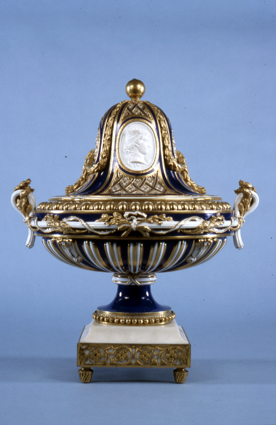 Unglazed medallions of the Latin god of commerce, Mercury, give these vases their name. On the reverse are medallions of Medusa and Julia, daughter of Emperor Titus, based on ancient carved gems formerly in the collection of Baron Philippe von Stosch. A similar pair of vases, dated 1767, in the Royal Collection of England, bear images of Louis XV and the Empress Marie-Therèse.